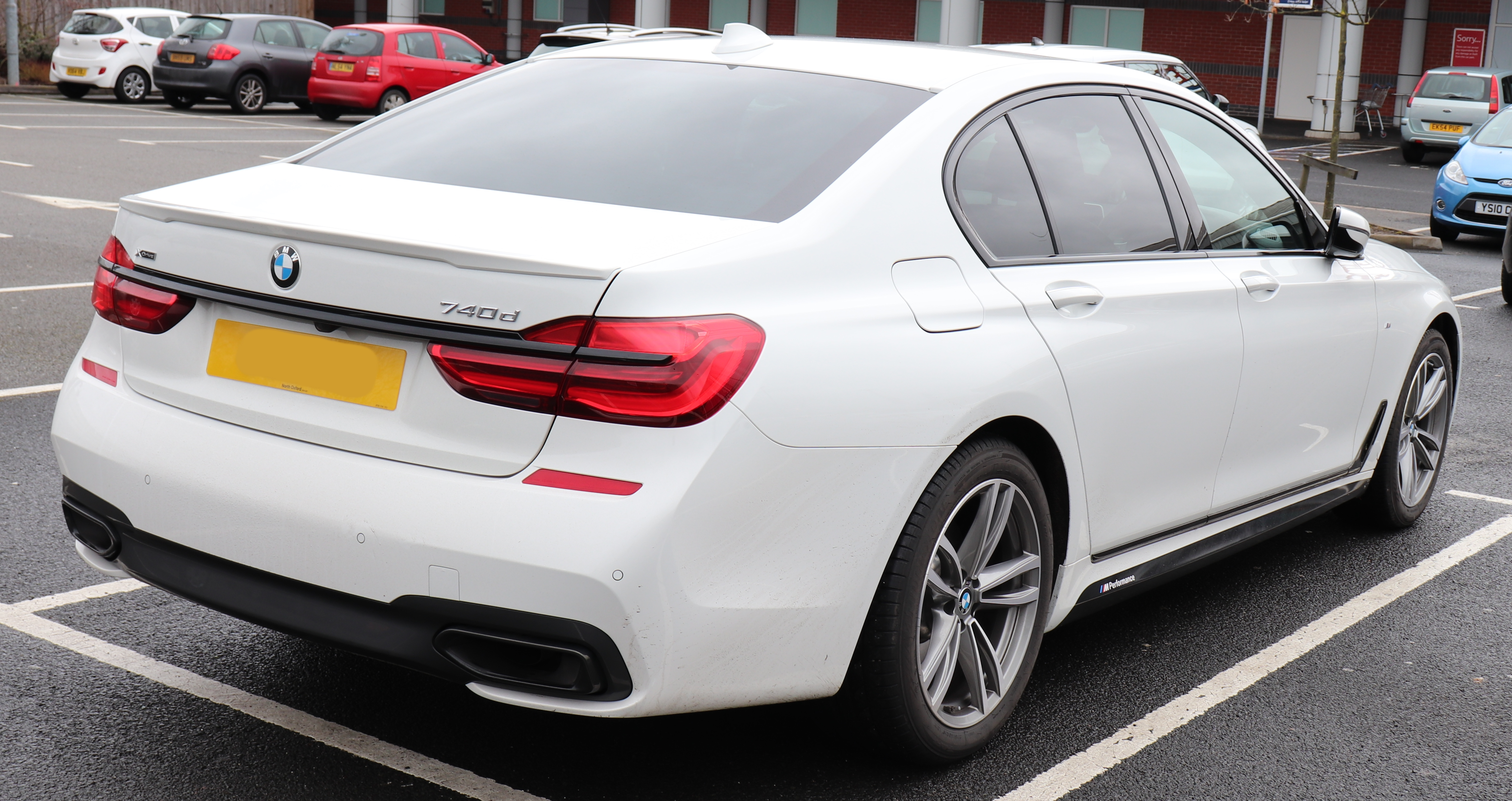 2017 BMW 740d XDRIVE M Sport Automatic 3.0 Rear Taken in Warwick